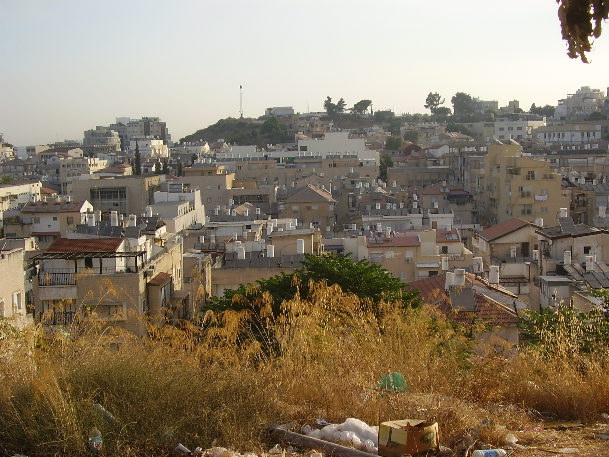 sokolov hill in bnei brak, view from har shalom מבט על גבעת סוקולוב משכונת הר שלום בבני ברק